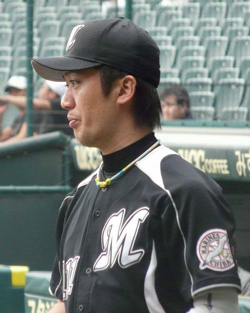 LM-Shinichi-Nagasaki20100525